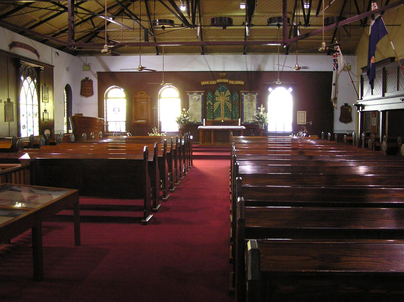 View of the Naval Chapel looking to the front. Notes: 1. roof beam supports 2. 'boat' shaped pulpit at front-left 3. gallery at right 4. retired Queen's Colours at left I took this picture in November 2006. Peter Ellis 07:02, 12 November 2006 (UTC)